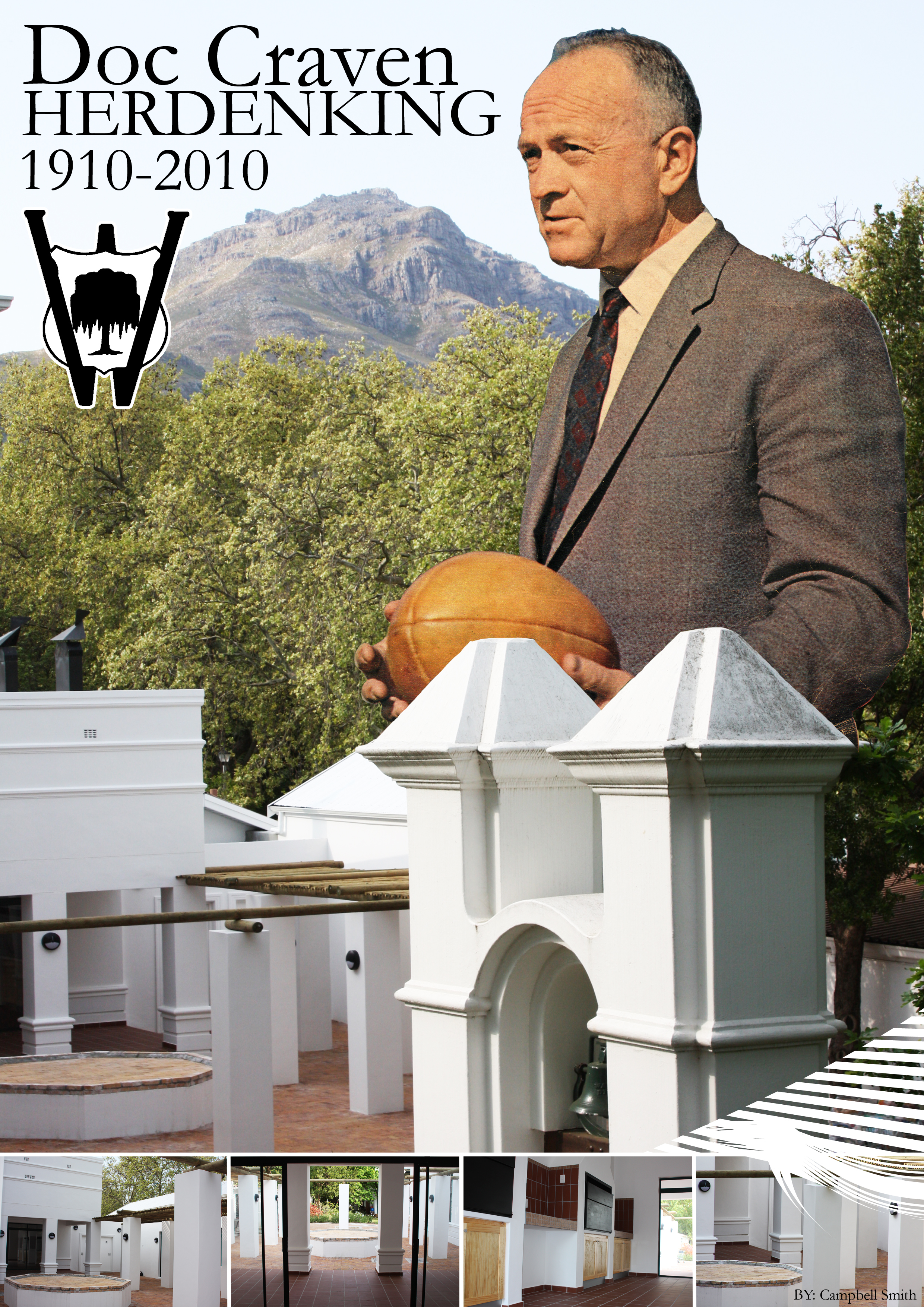 Doc Danie Craven Herdenking.